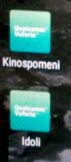 Icons make by World heritage maker